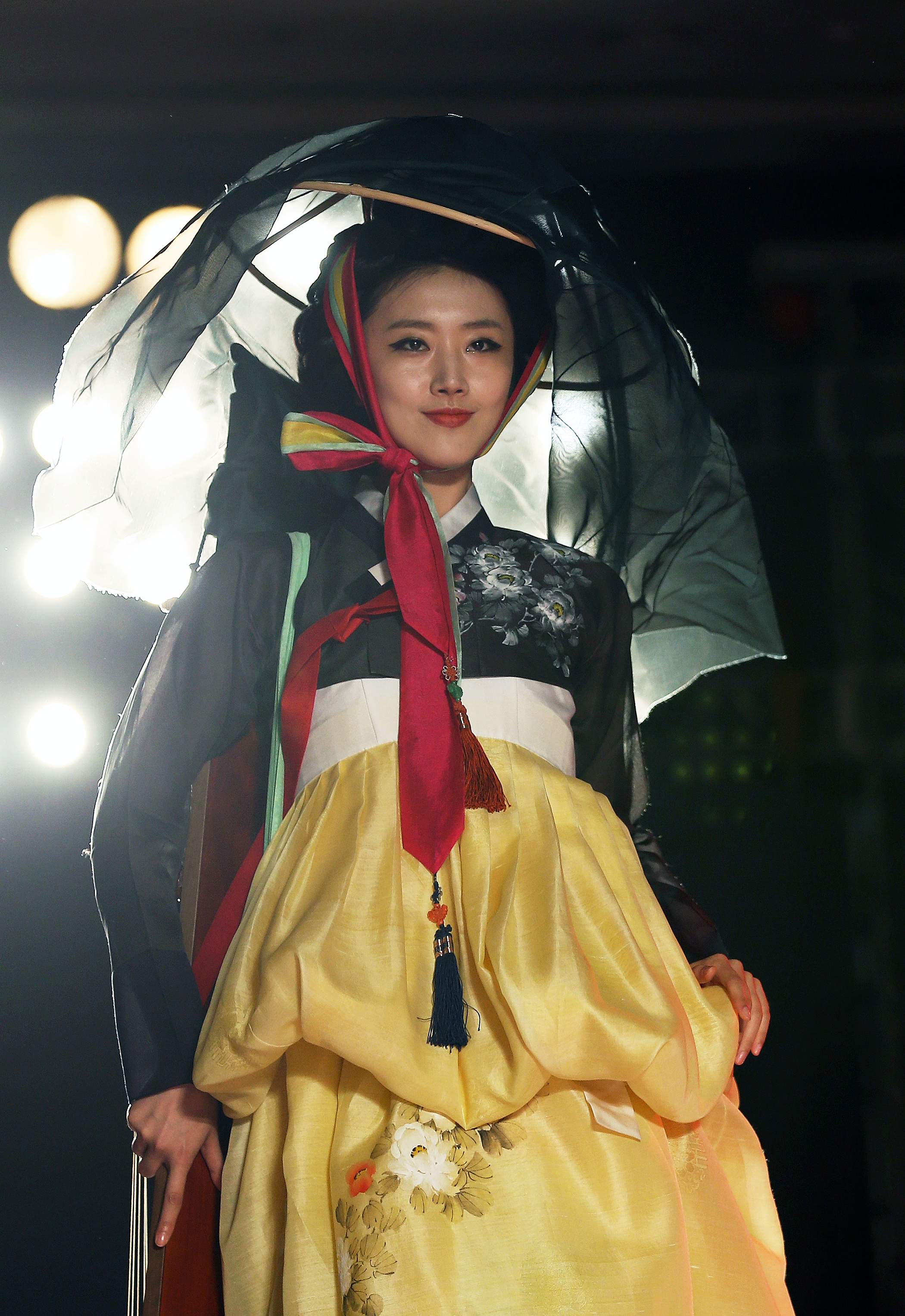 Hanbok-Ao Dai Fashion Show, Hanoi, Vietnam